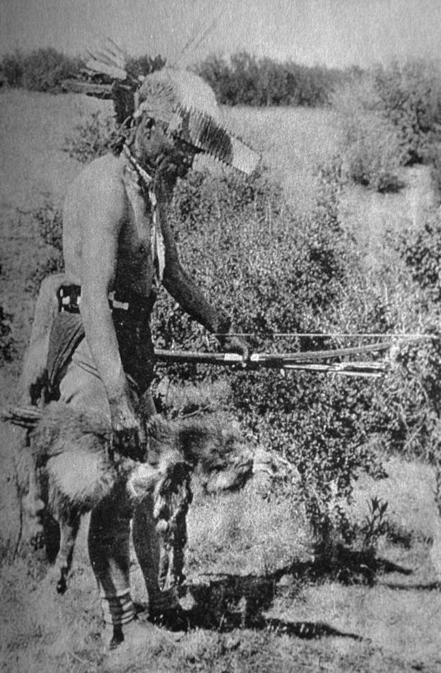 Maidu dancer likely of the Kuksu faith